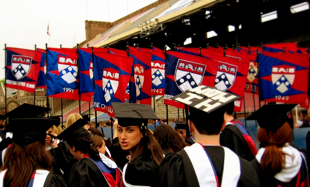 250th UPenn Graduation